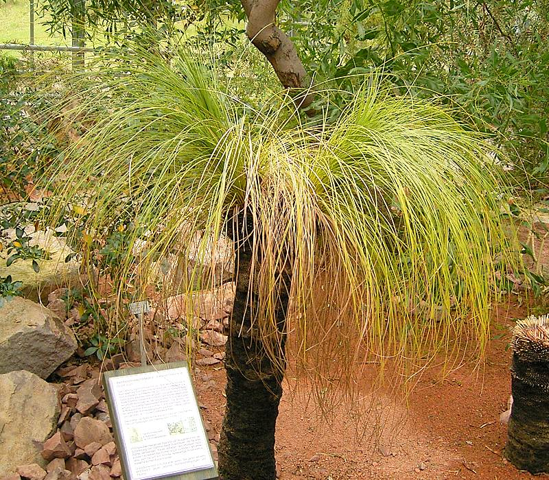 Xanthorrhoea johnsonii, BG Bochum, Germany